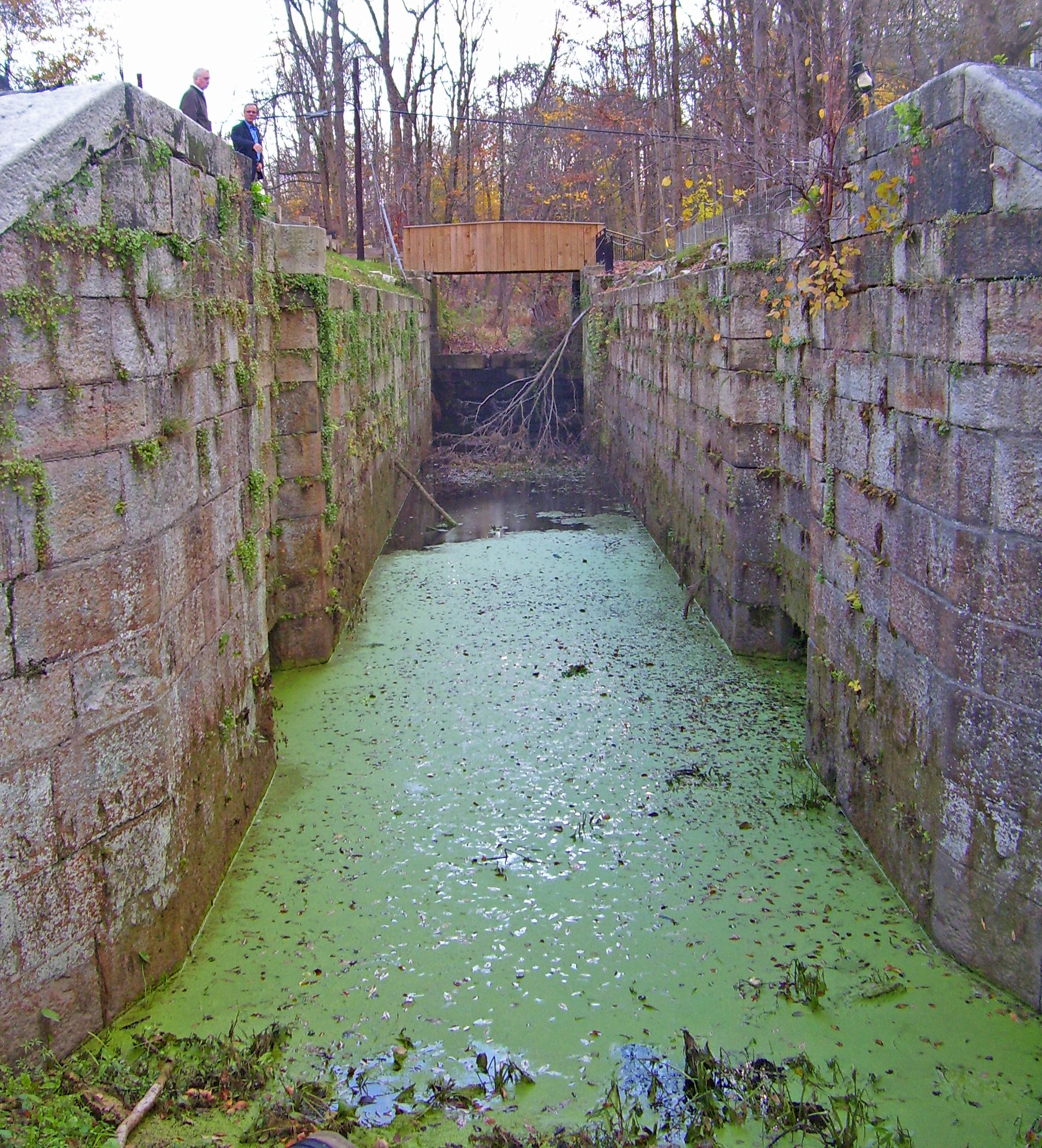 Delaware and Hudson Canal Lock No. 15 at High Falls, NY, USA